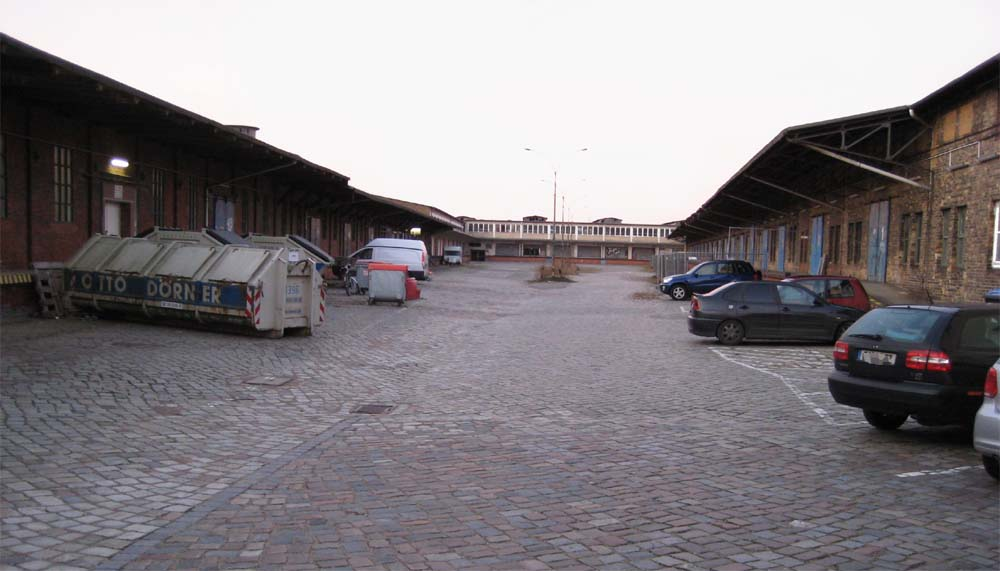 Goods shed